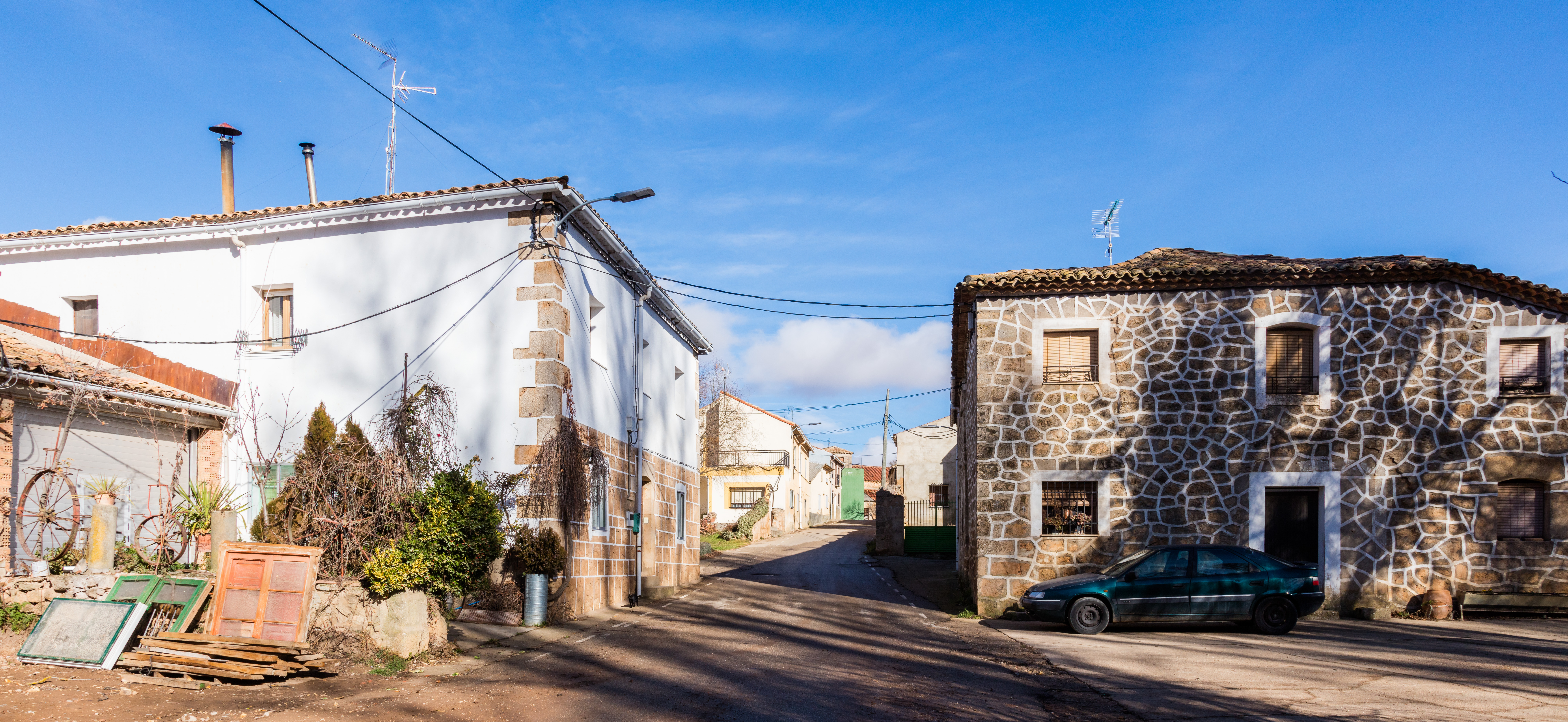 Escobosa de Almazán, Soria, Spain